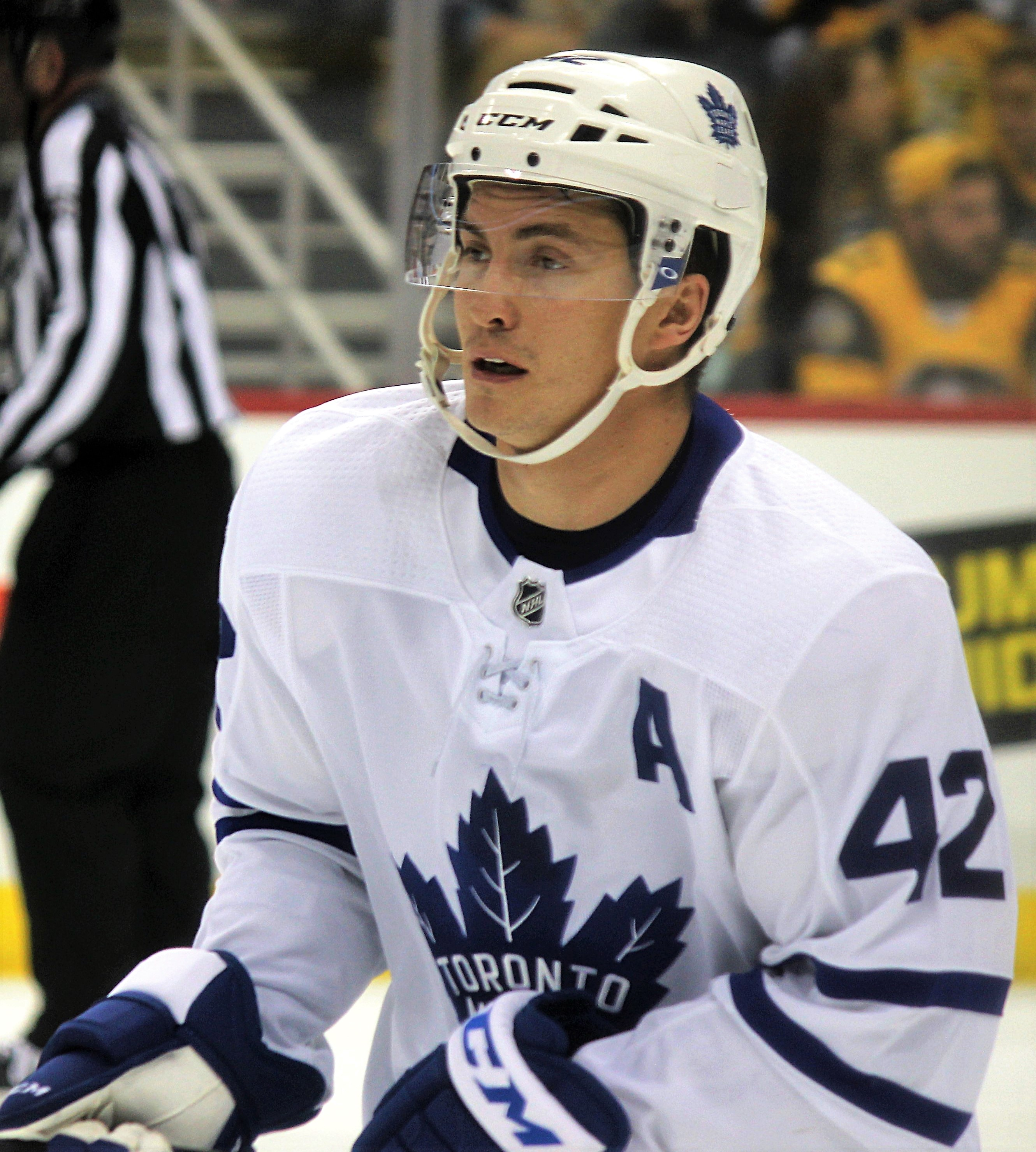 Toronto Maple Leafs forward Tyler Bozak during a game against the Pittsburgh Penguins, December 9, 2017, at PPG Paints Arena in Pittsburgh, PA.